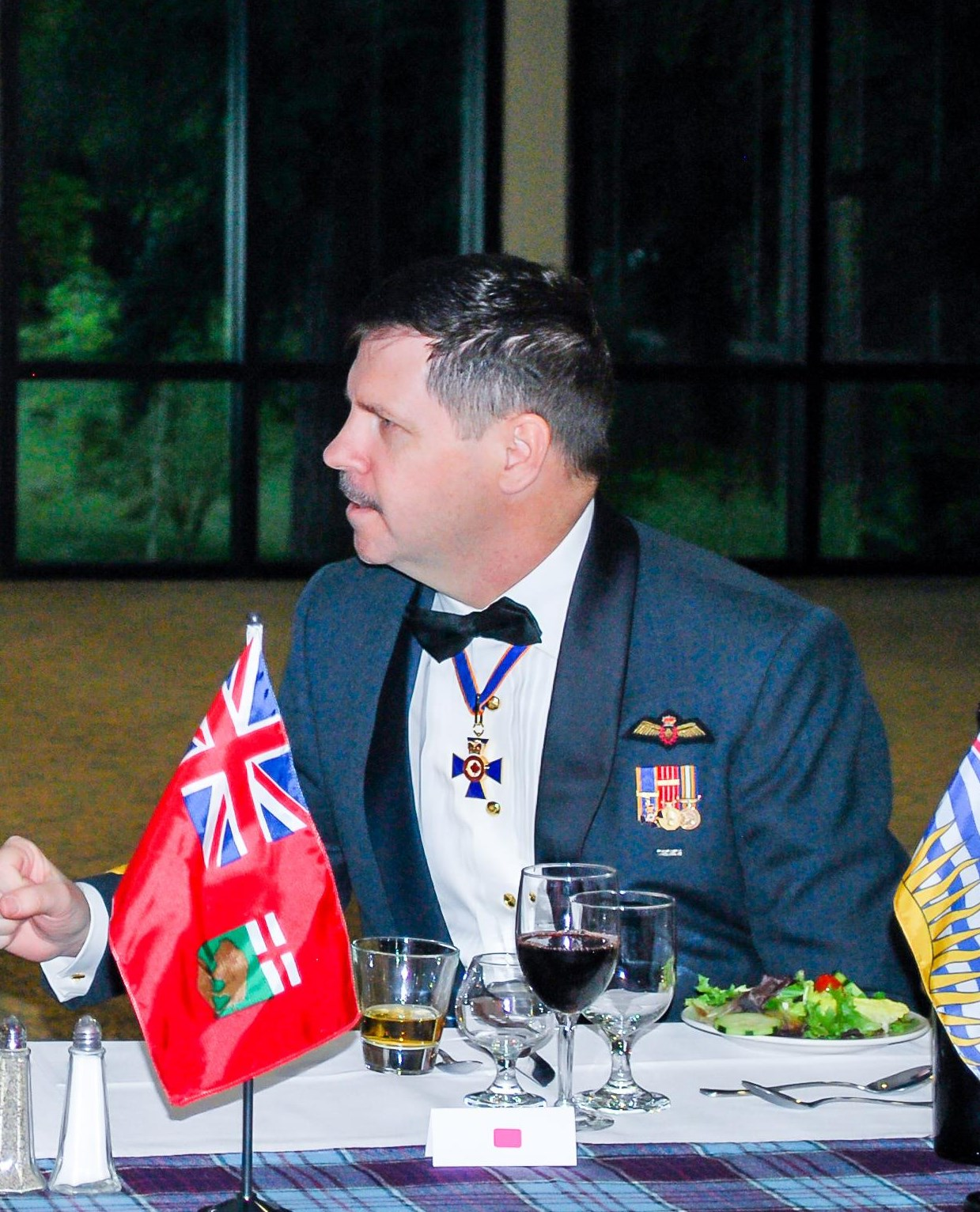 Lt. Gen. Pierre St. Amand, deputy commander for North American Aerospace Defense Command (NORAD) at a Canadian Mess Dinner April 15 at the American Lake Conference Center at Joint Base Lewis-McChord.